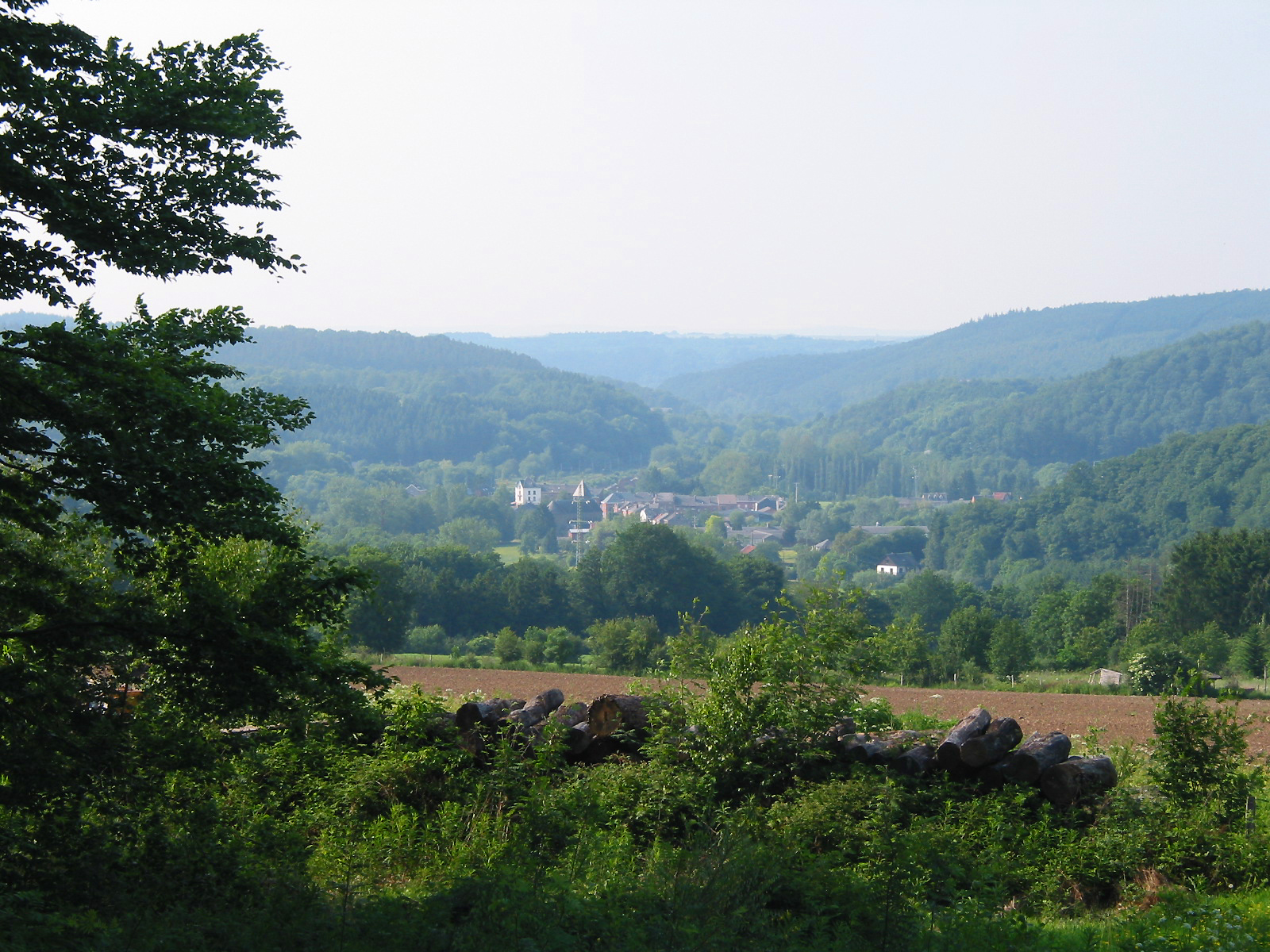 Forrières (Belgium), the village in the valley of the L’Homme river.